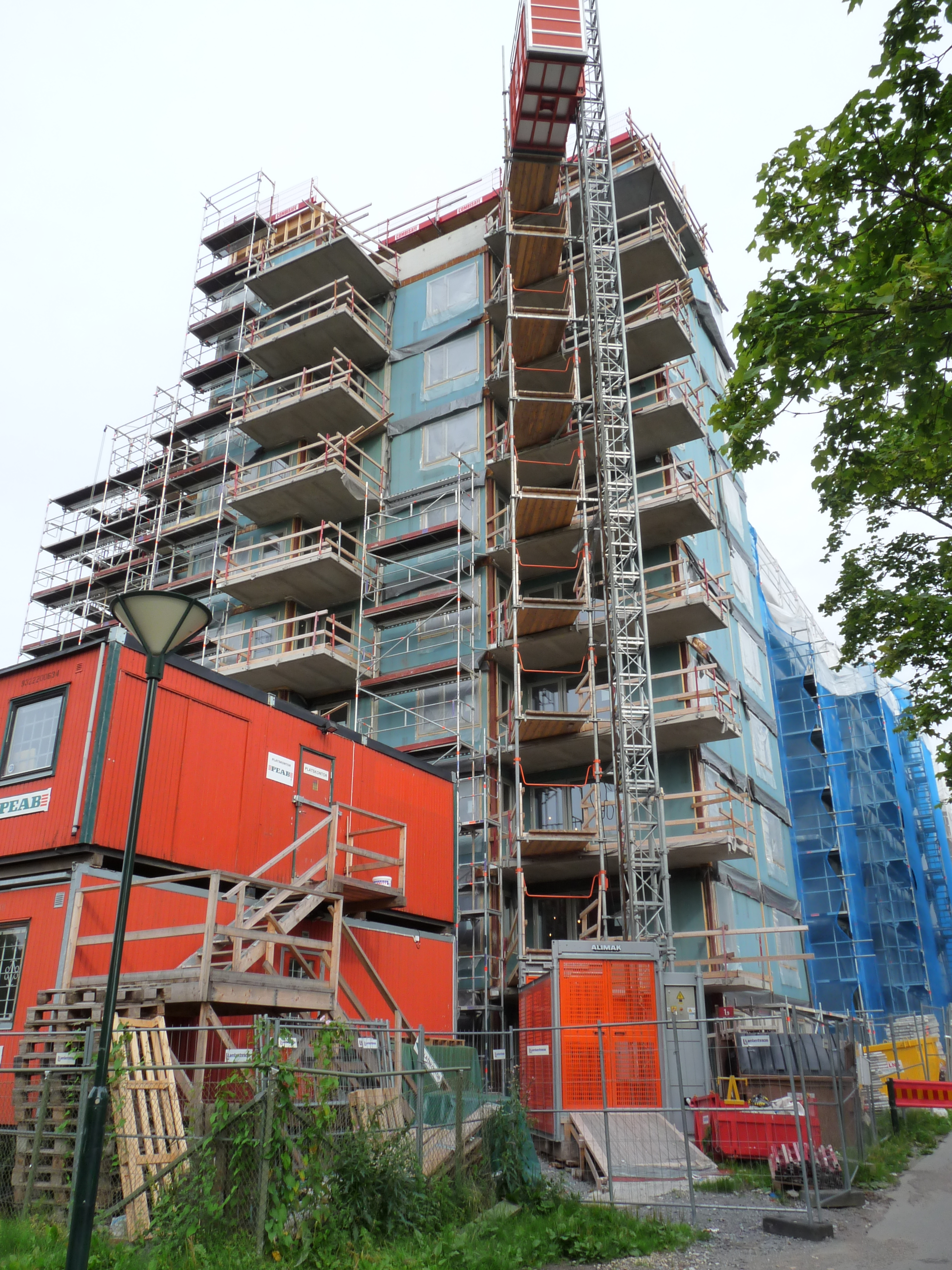 Apartment block building in Stockholm